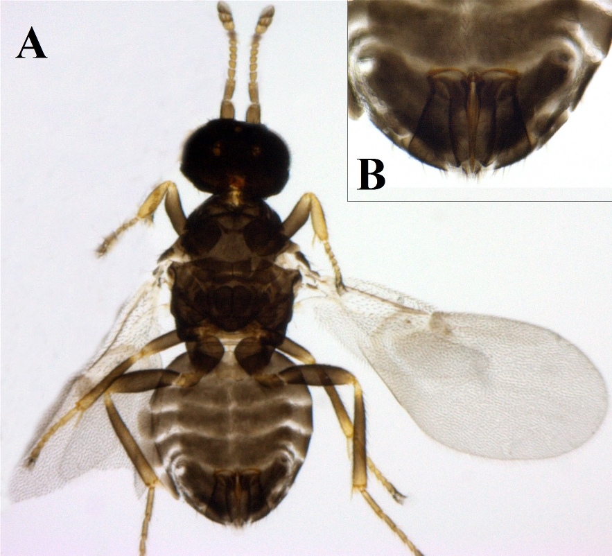 Ixodiphagus hookeri, female habitus (A) with magnified genitalia (B)